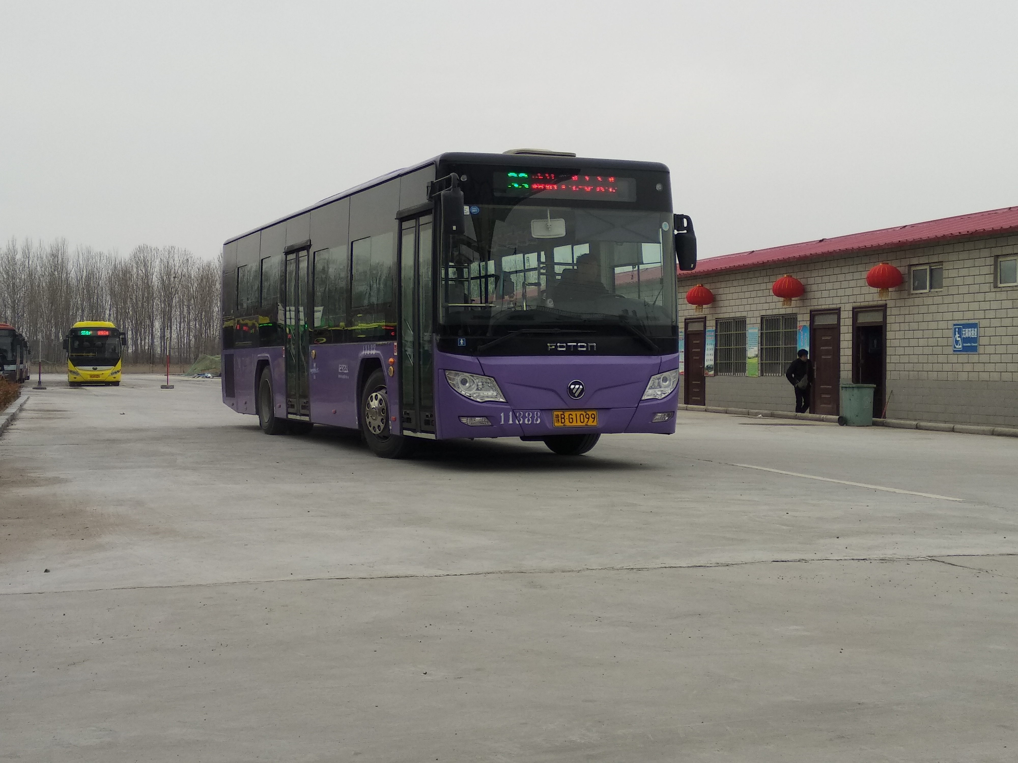 BJ6105PHEVGA-5, a purple eagle, running Kaifeng Bus Route 33 from Songchenglu Railway Station to Old Campus of Henan University.